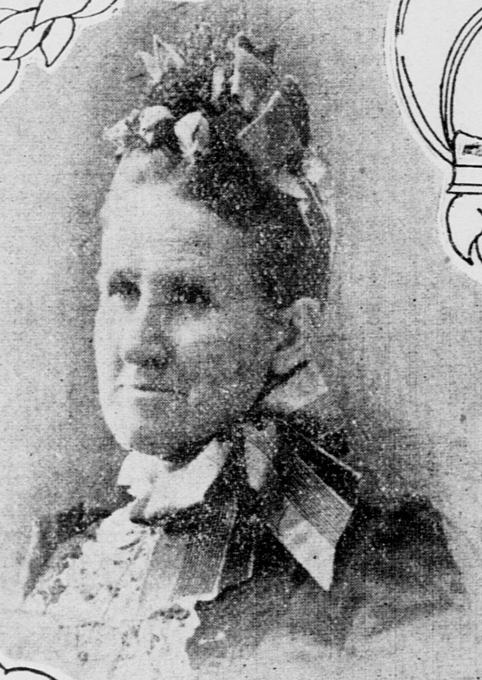 A photograph of educator and activist Maria Freeman Gray published in the July 16, 1899 edition of The San Francisco Call